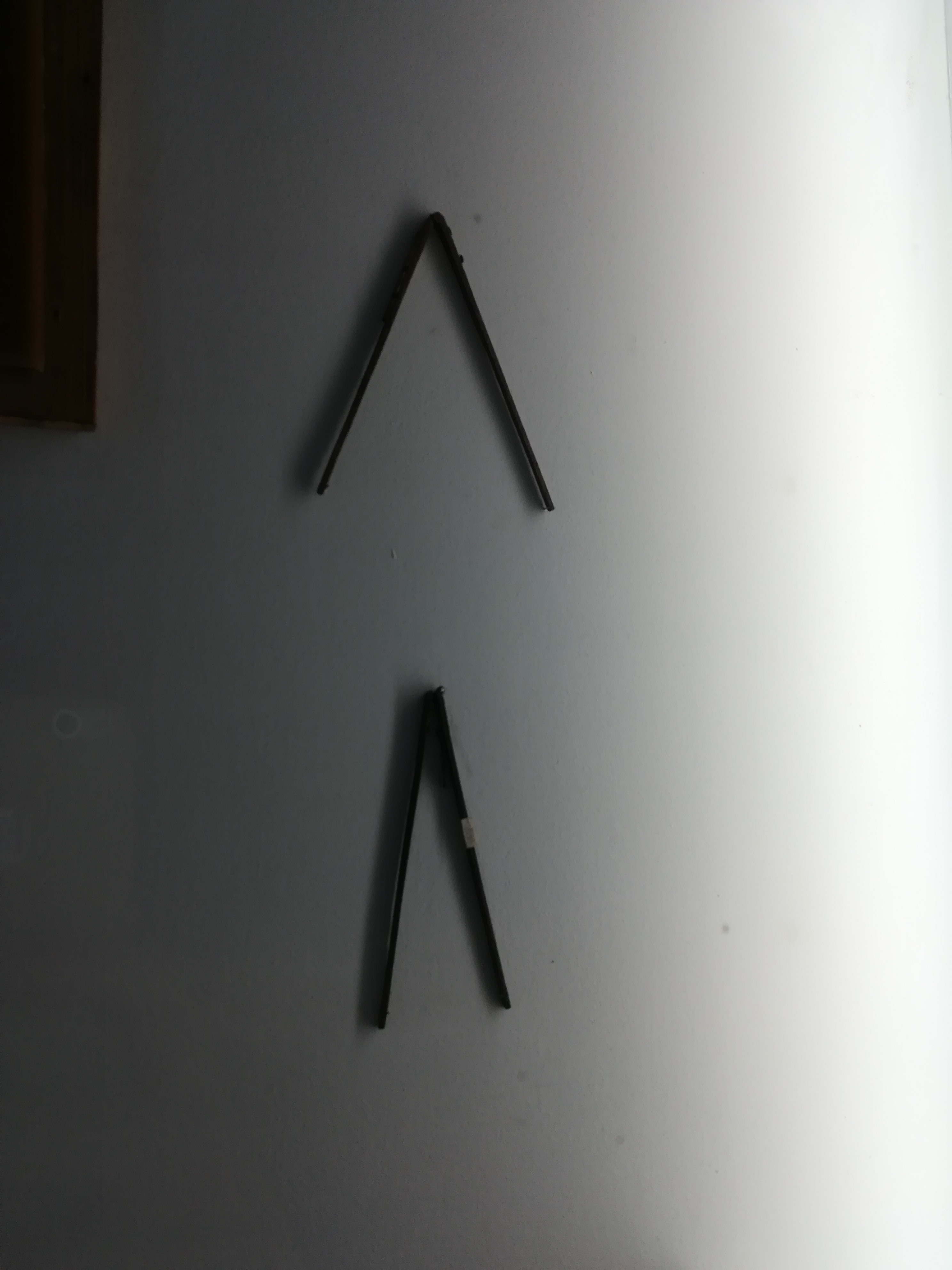 School supplies in the schools od Ancient Rome.